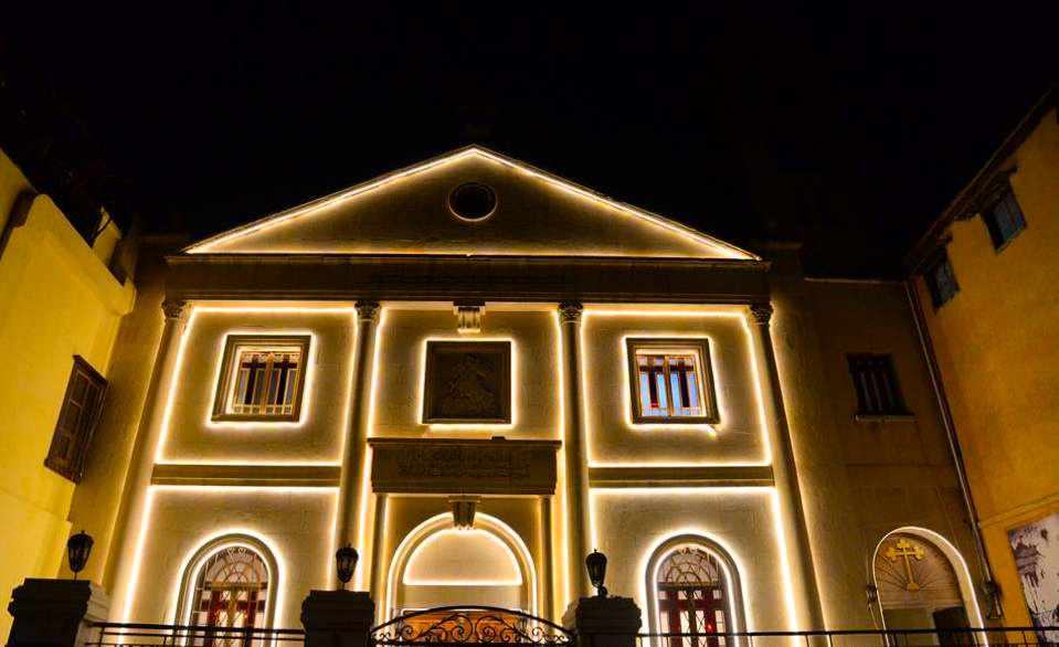 Syrian Orthodox Patriarchate December 18